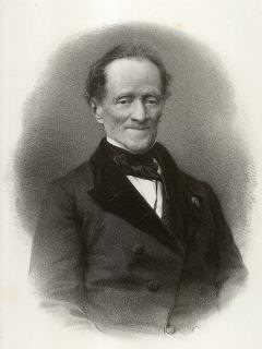 Photography of French poet Jean-Baptiste-Antoine-Aimé Sanson de Pongerville (1782-1870)